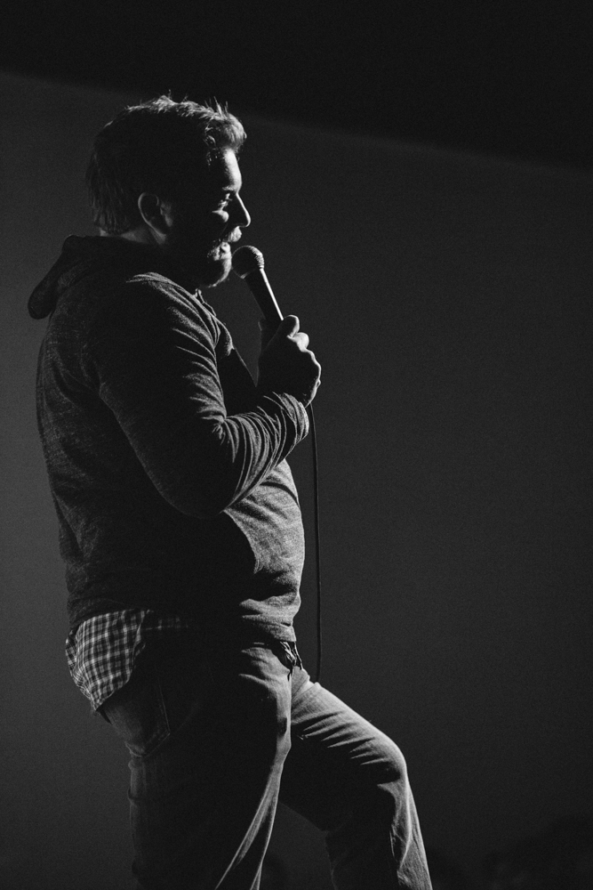 Jay Larson at The Super Serious Show